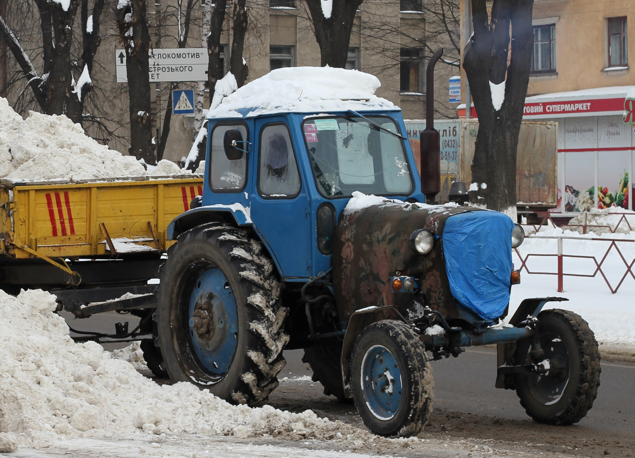 A MTZ-50 tractor in Vinnitsa, Ukraine